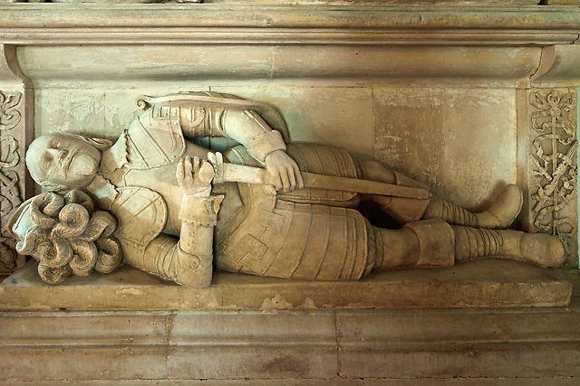 St Michael's church, Farway - Prideaux monument detail (2). Monument of Sir Peter Prideaux, 3rd Baronet (1626–1705)